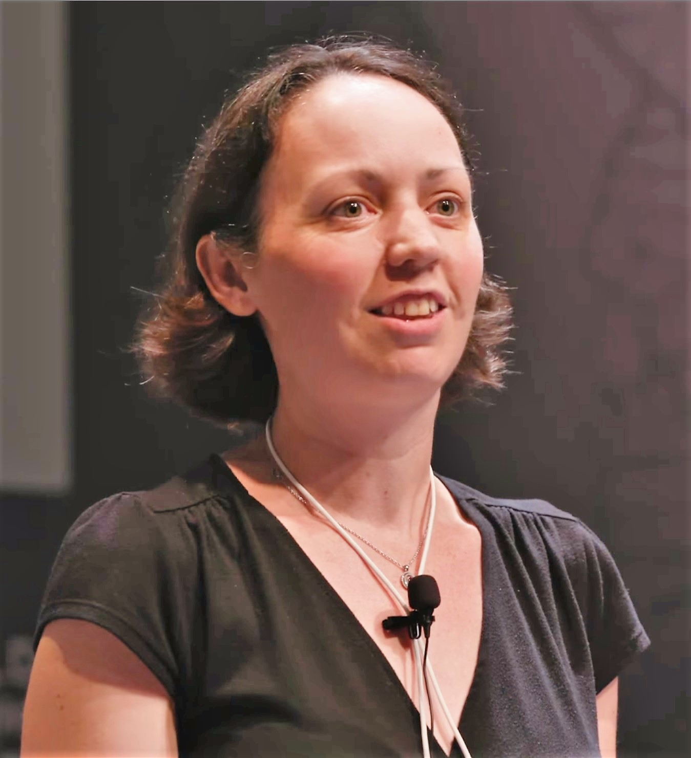 Growing organs through understanding and reconstructing tissue architectures | Celeste Nelson The human lung is an amazing feat of engineering: it contains 8 million tubes, delivering oxygen to a surface about the size of a tennis court. But other species have different, and sometimes even better, designs. Celeste Nelson, Professor of Chemical and Biological Engineering at Princeton, explains how her lab is combining approaches from nature to engineer more efficient lungs.